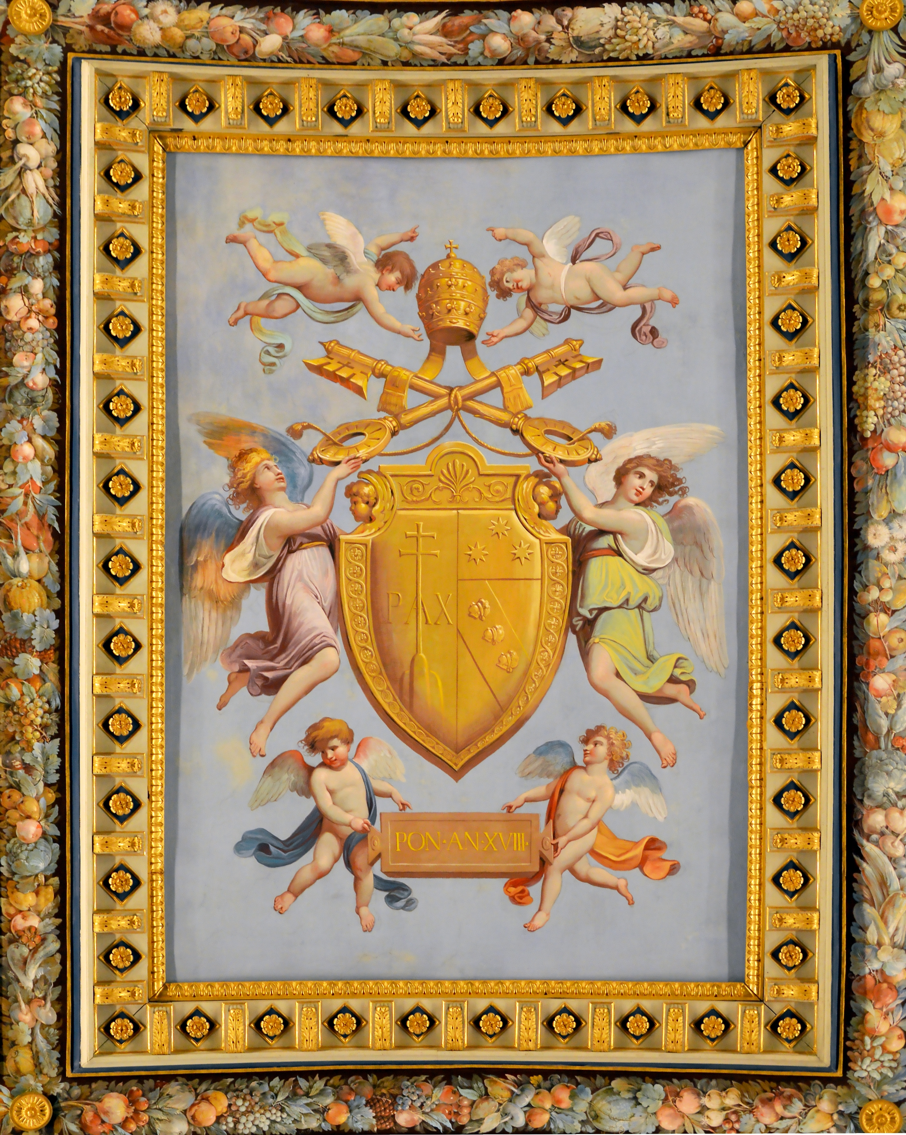 Fresco with CoA of Pope Pius VII